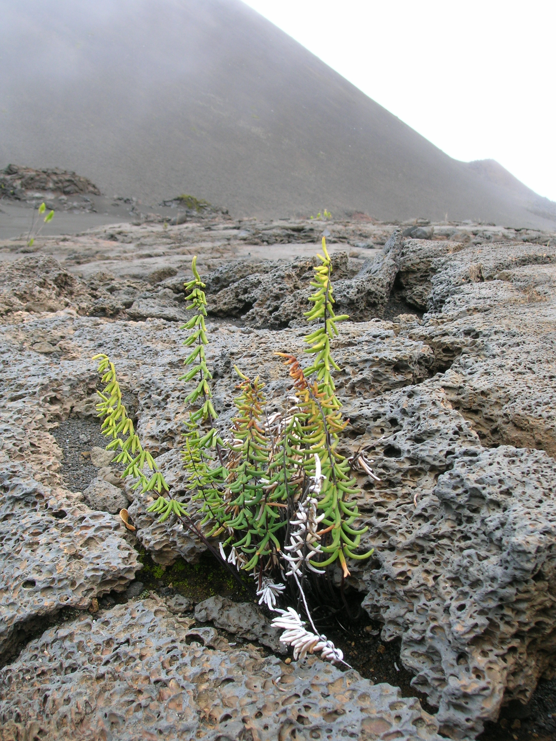 Pellaea ternifolia (habit). Location: Maui, Near Puu o Pele Haleakala National Park